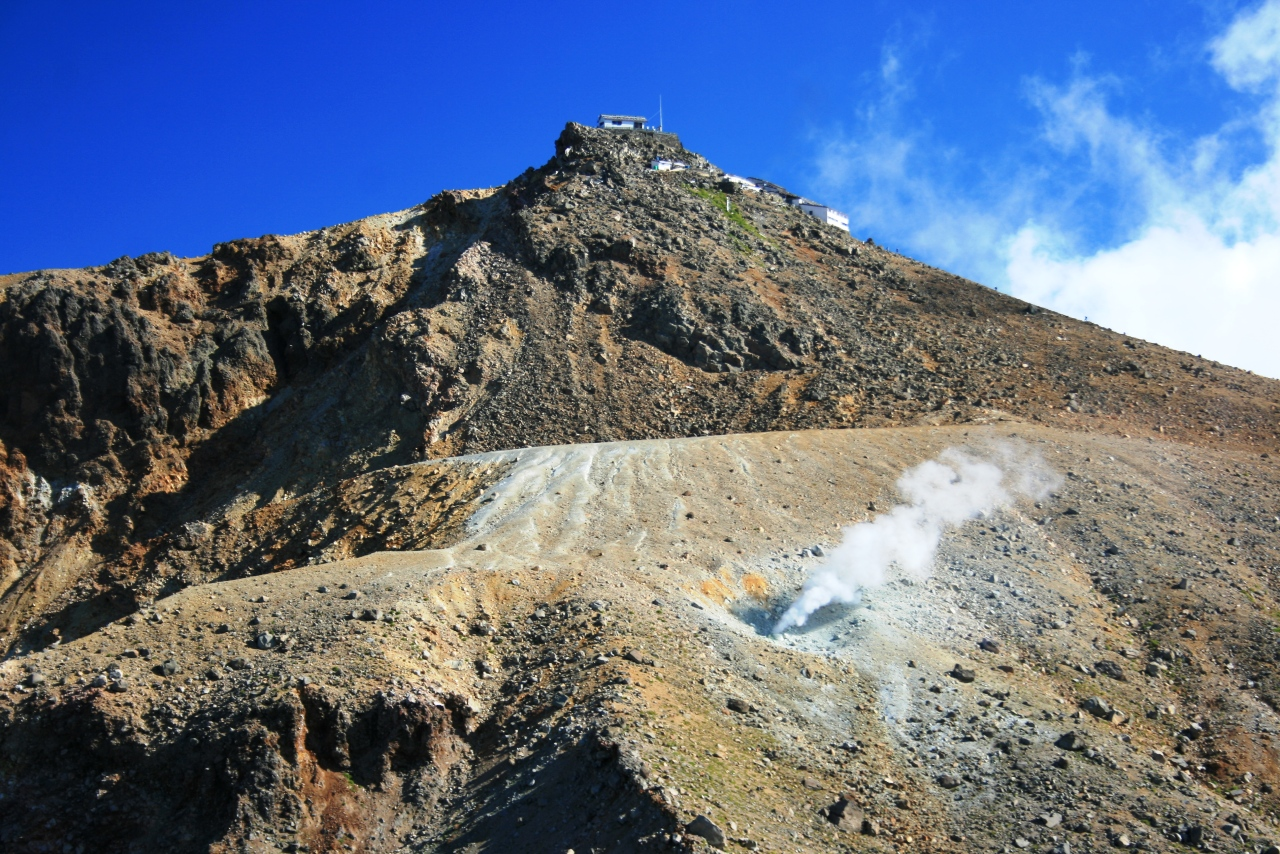 Mount Ontake from_OtakiTop